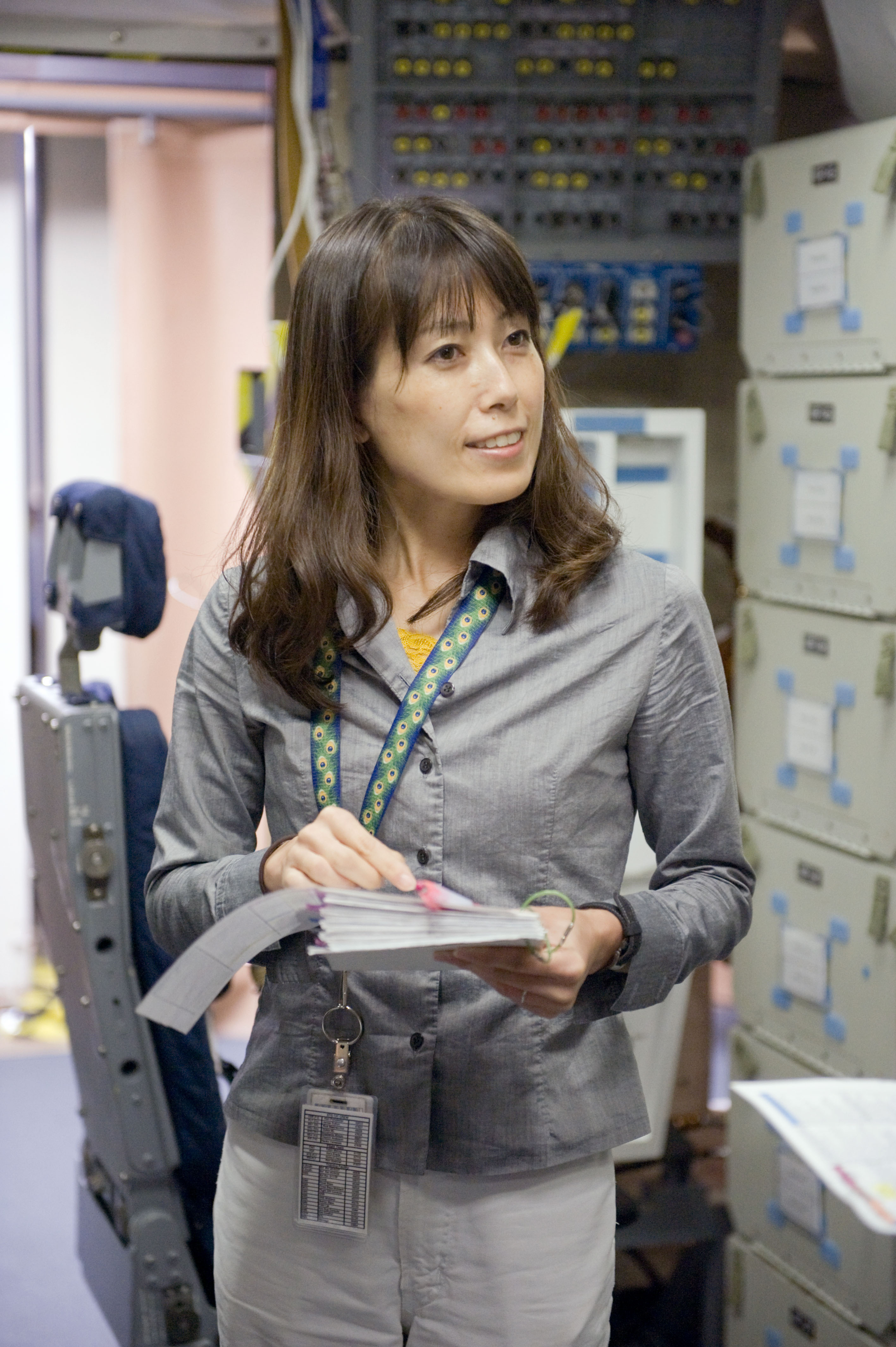 Japan Aerospace Exploration Agency (JAXA) astronaut Naoko Yamazaki, STS-131 mission specialist, participates in a training session in the shuttle mission simulator (SMS) in the Jake Garn Simulation and Training Facility at NASA's Johnson Space Center.